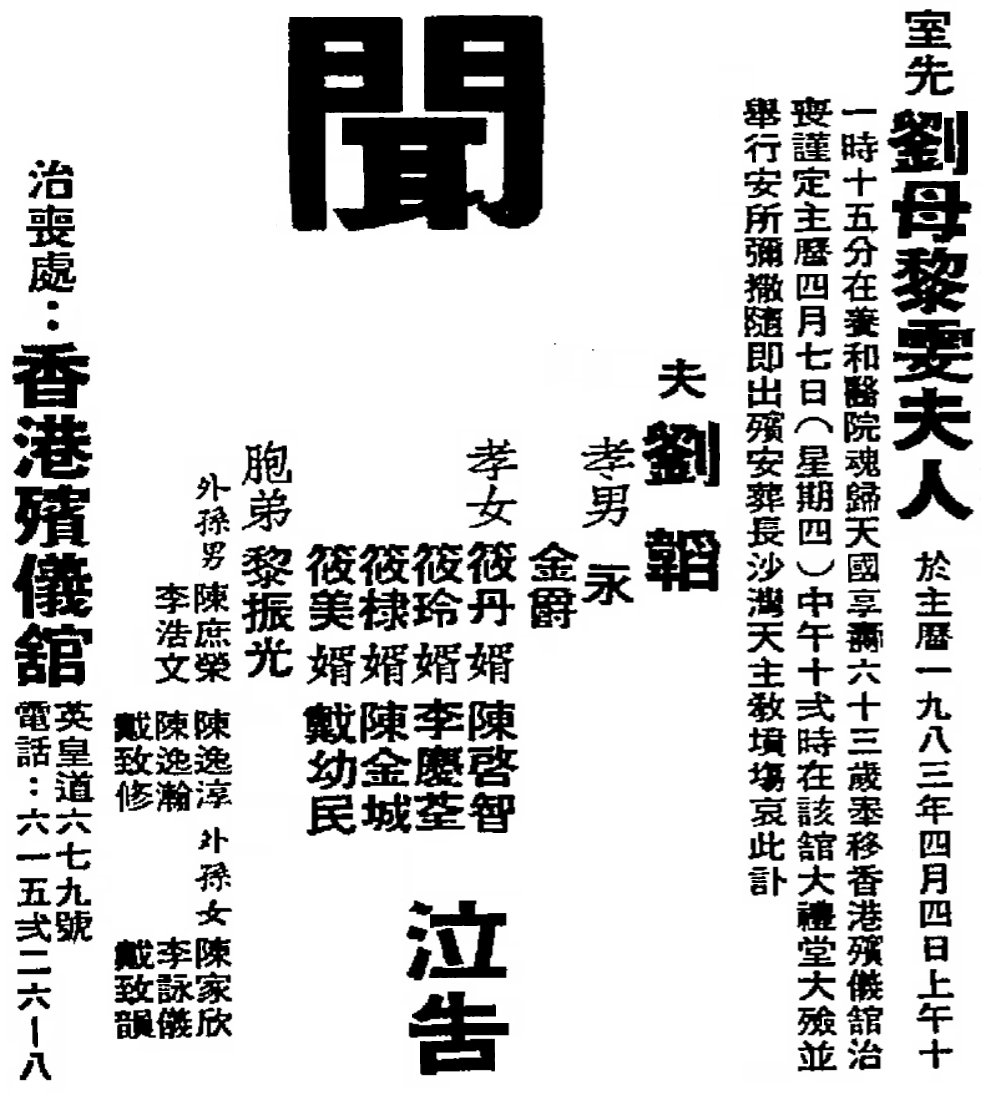 Hong Kong sexy actress Ms. Lai Man (劉雯)'s obituary.